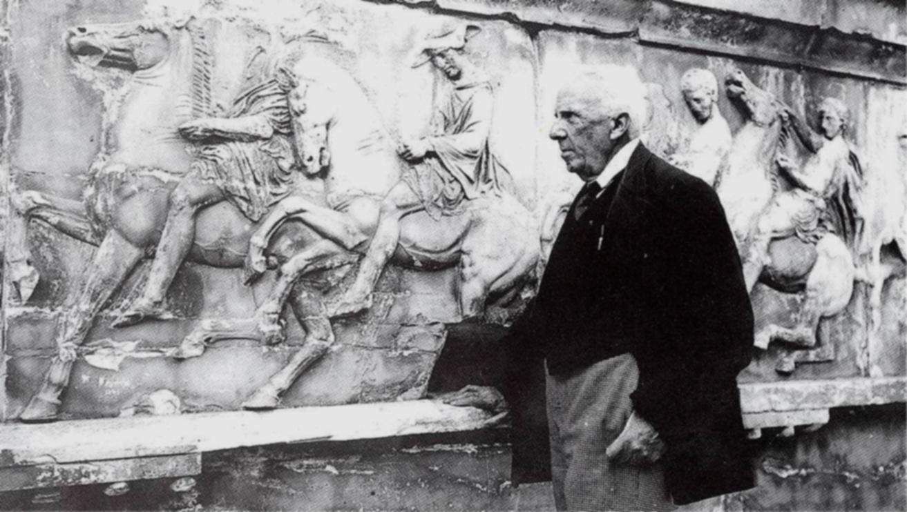 Nikolaos Balanos (1860-1942) in front of the Parthenon frieze